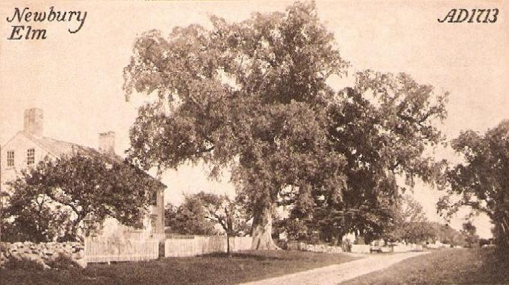 "Newbury Elm," Newbury, MA; from a c. 1910 postcard.